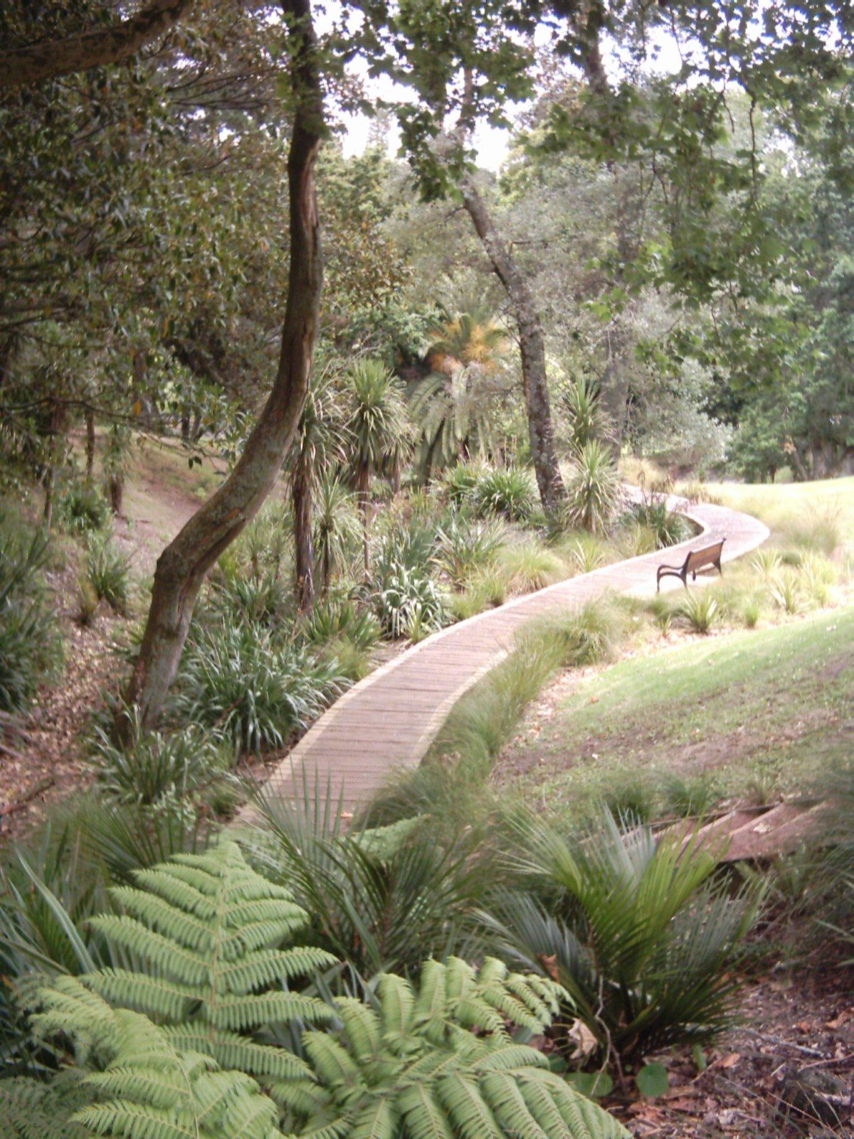 Upper, eastern part of Western Park, in Auckland, New Zealand.